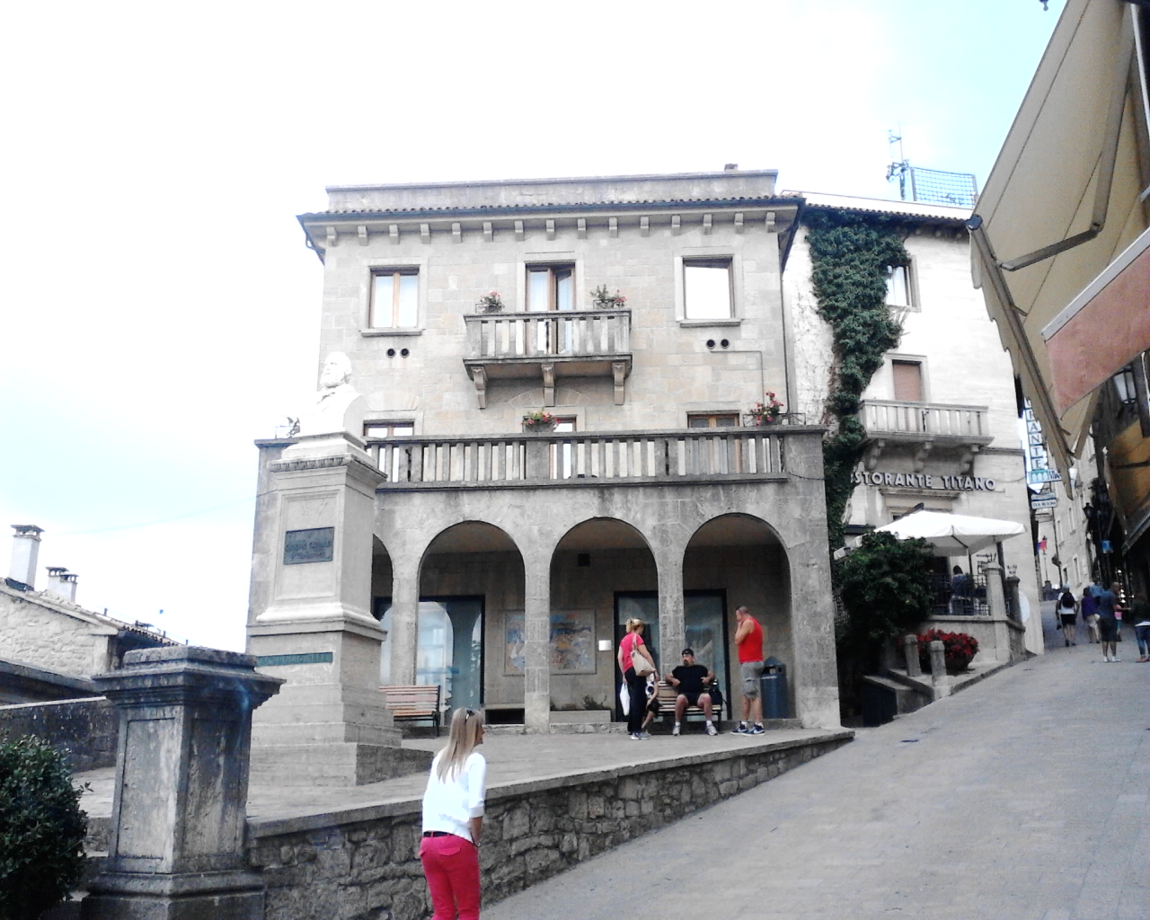 Garibaldi's Square in SAN MARINO